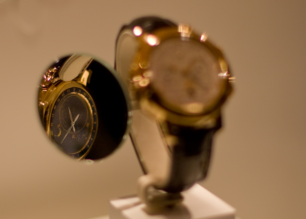 Tiffany's Patek Philippe Watch Collection, in New York, on the opening of their Patek Philippe watch store.